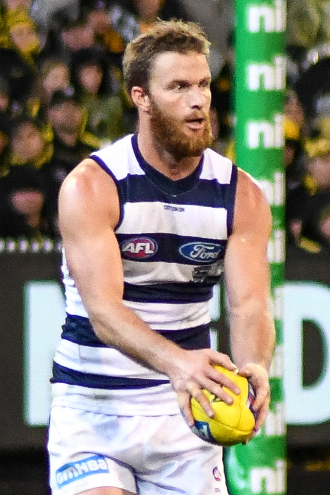 Lachie Henderson of Geelong during the 2018 AFL round 20 match between Richmond and Geelong at the Melbourne Cricket Ground on Friday, 3 August 2018 in Melbourne, Victoria.